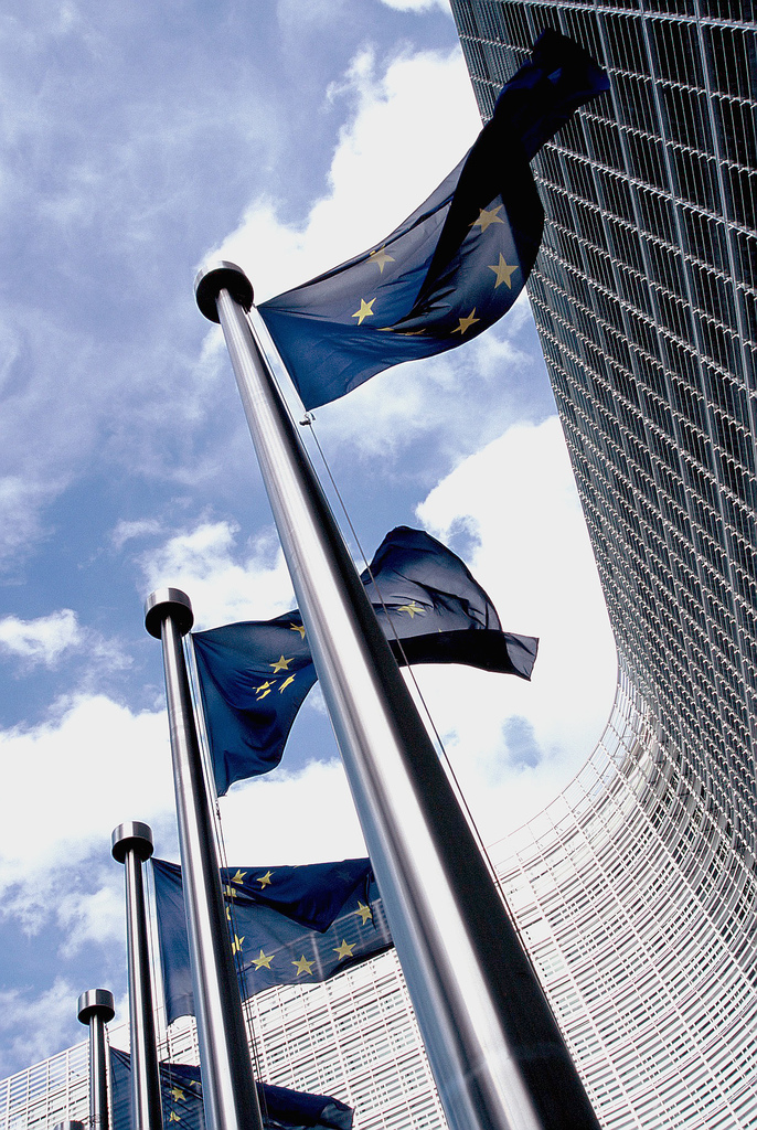 European flag outside the Commission